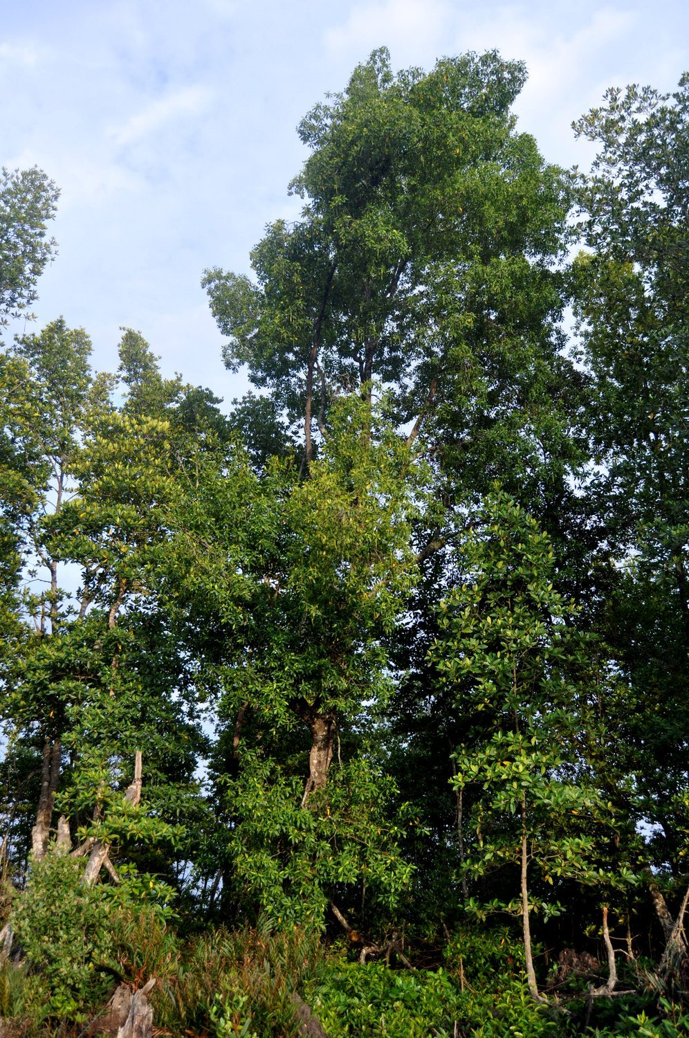 Lenggadai (Bruguiera parviflora) habits; ca 22 m in height. From Kotabaru, South Kalimantan, Indonesia.